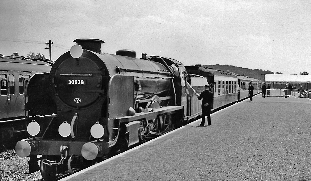 Royal Train arriving at Tattenham Corner station on Derby Day. View southward, towards Purley and London; ex-SE&CR Purley - Tattenham Corner branch. The Station is all prepared for HM the Queen to attend the primary horse-race of the year. Her Pullman train is hauled by a resplendant SR Maunsell class V 'Schools' 4-4-0 (with Lemaitre double-chimney) No. 30938 'St Olaves (built 7/35, withdrawn 7/61). Note the headcode and the Stationmaster guiding the driver to the exact stopping point.